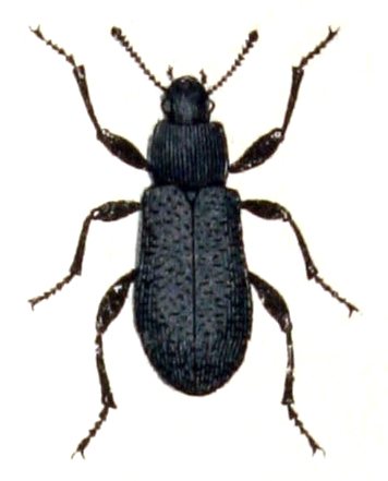 Upis ceramboides, from Calwer's Käferbuch, Table 47, Picture 5. Taxonomy was updated to 2008, using mostly the sites Fauna Europaea and BioLib. Please contact Sarefo if the determination is wrong!